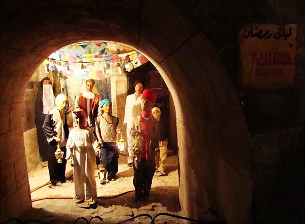 Ramadan night in Helwan wax museum